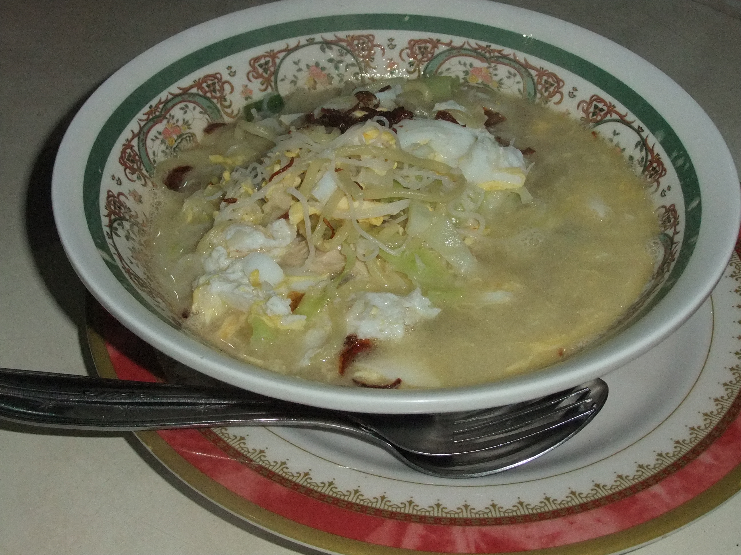 Bakmi Jawa, Pasar Prawirotaman Jl Parangtritis Km 2, Yogyakarta.